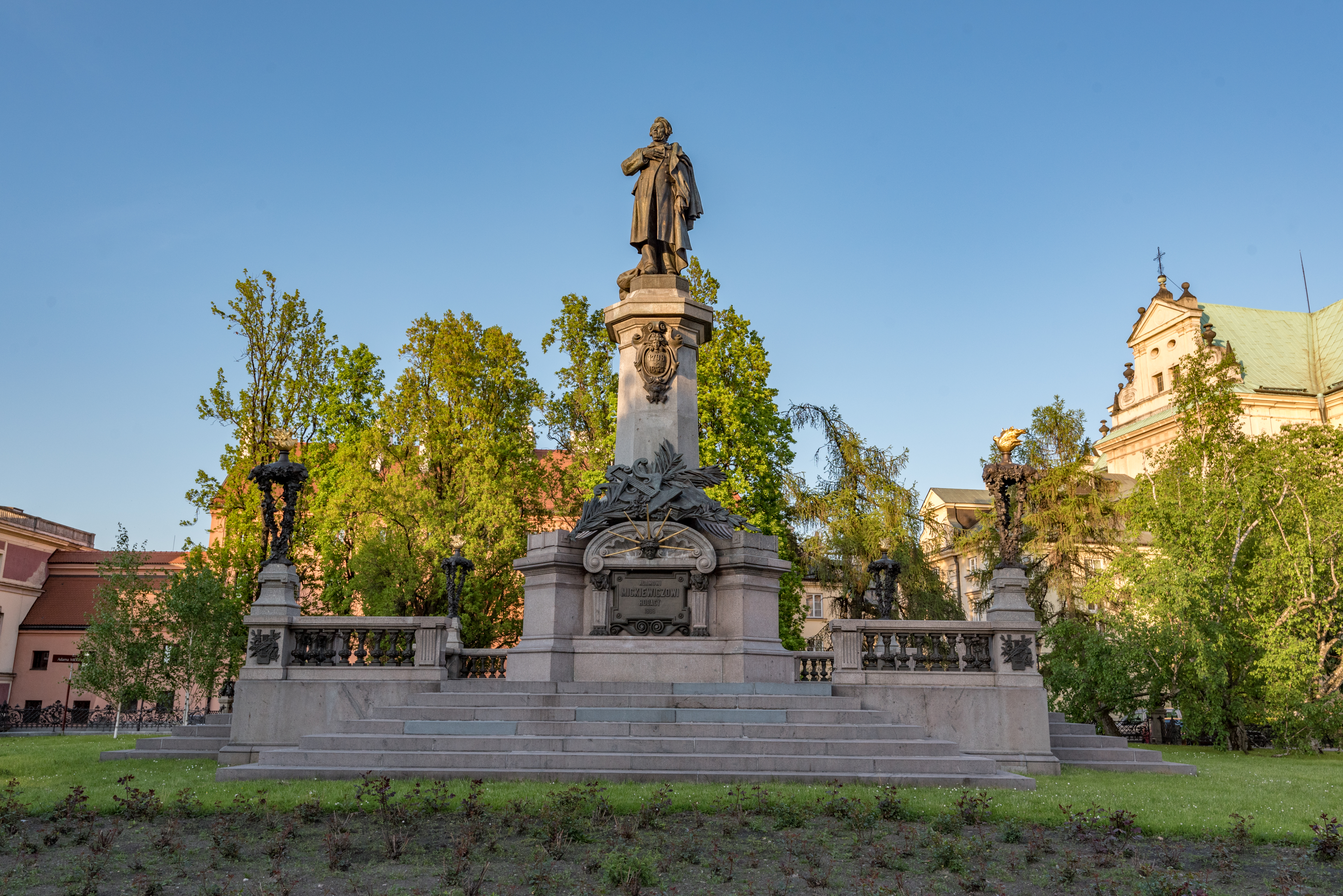 Warszawa, ul. Krakowskie Przedmieście, pomnik Adama Mickiewicza